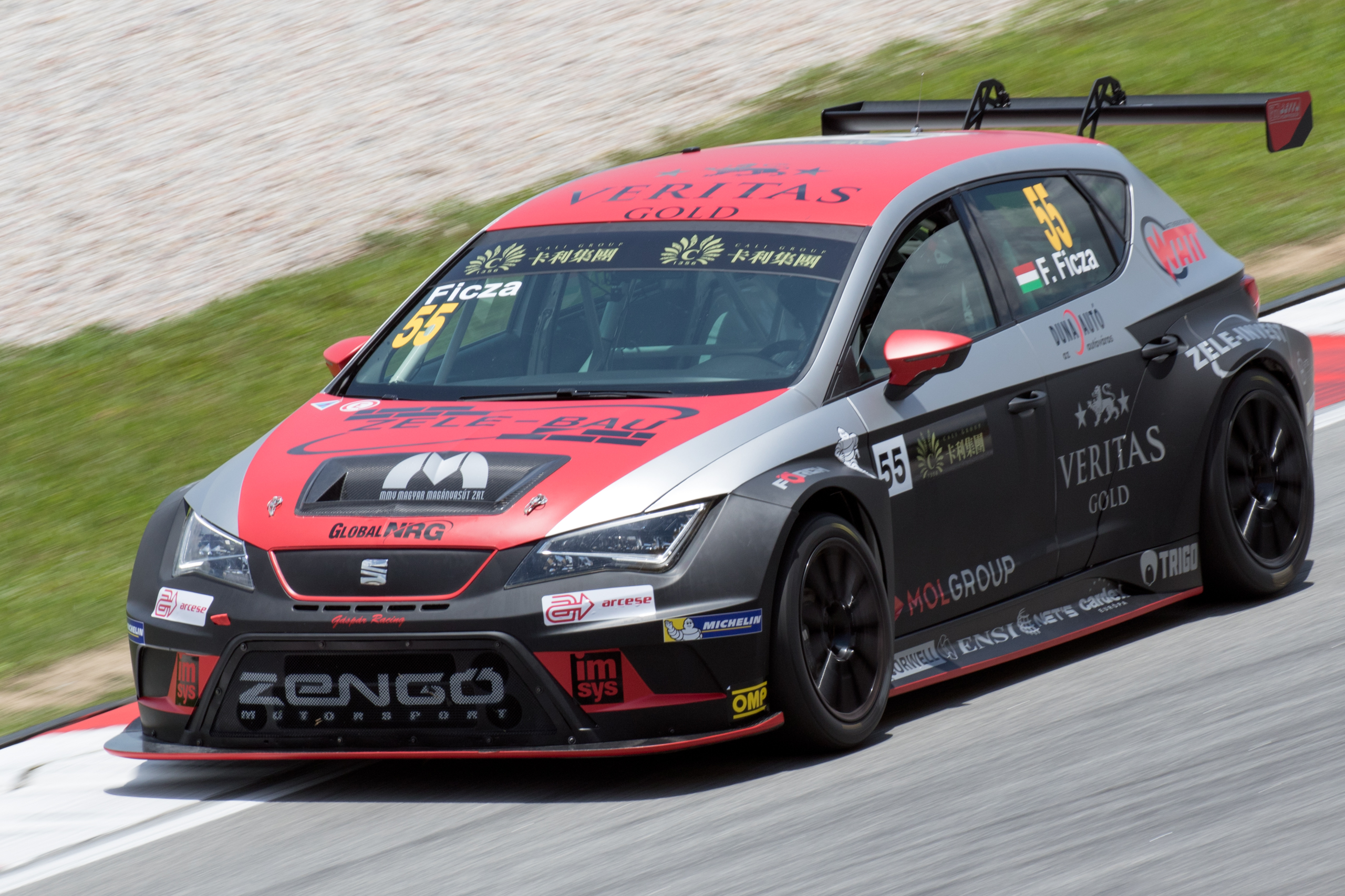 TCR International Series 2015 Rd.1 Malaysia: Ferenc Ficza (Zengő Motorsport)